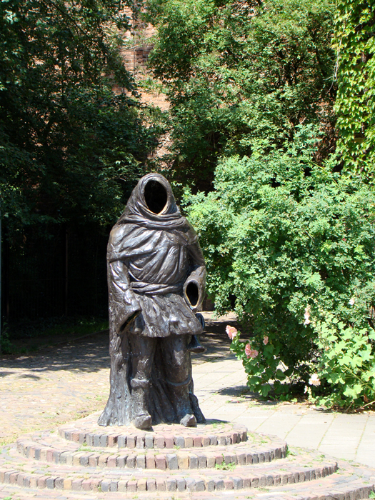 Artwork Thonis Drogenap by Oscar Rambonnet in Zutphen